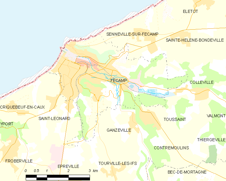 Map of French municipality Fécamp